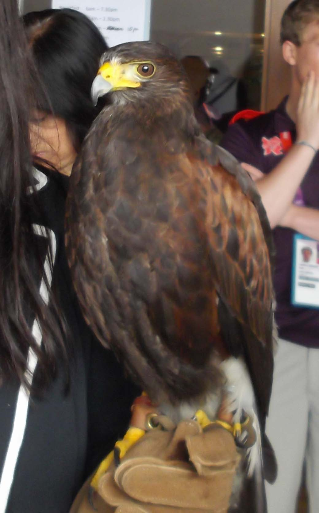 Rufus the hawk from Wimbledon, during the 2012 Olympic Games